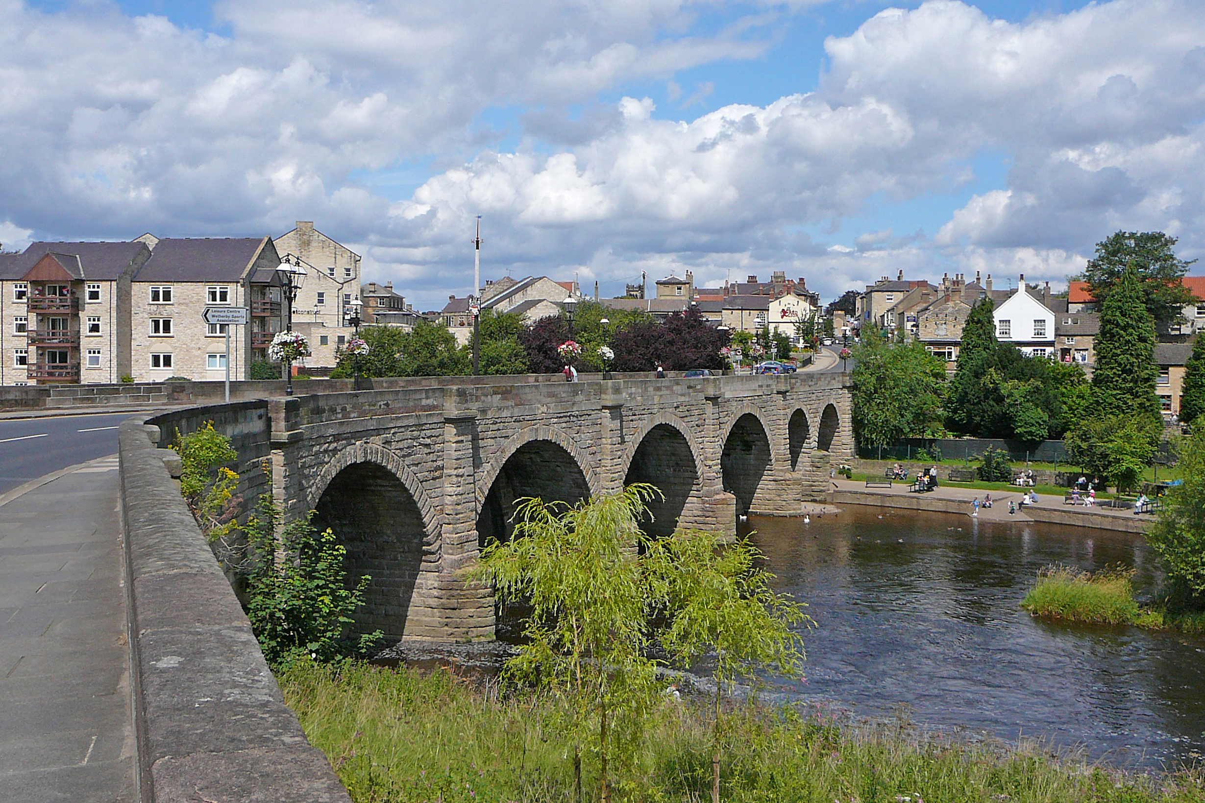 A view of Wetherby from Miclklethwaite to the South, looking over the River Wharfe. Taken on the 25th of July 2009.